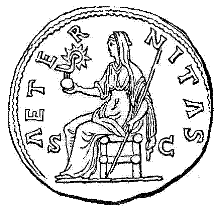 738 woodcuts illustrating the work A Dictionary of Roman Coins, Republican and Imperial (1889). To identify a coin please look at the filename to identify a page number, and check the Dictionary on numiswiki